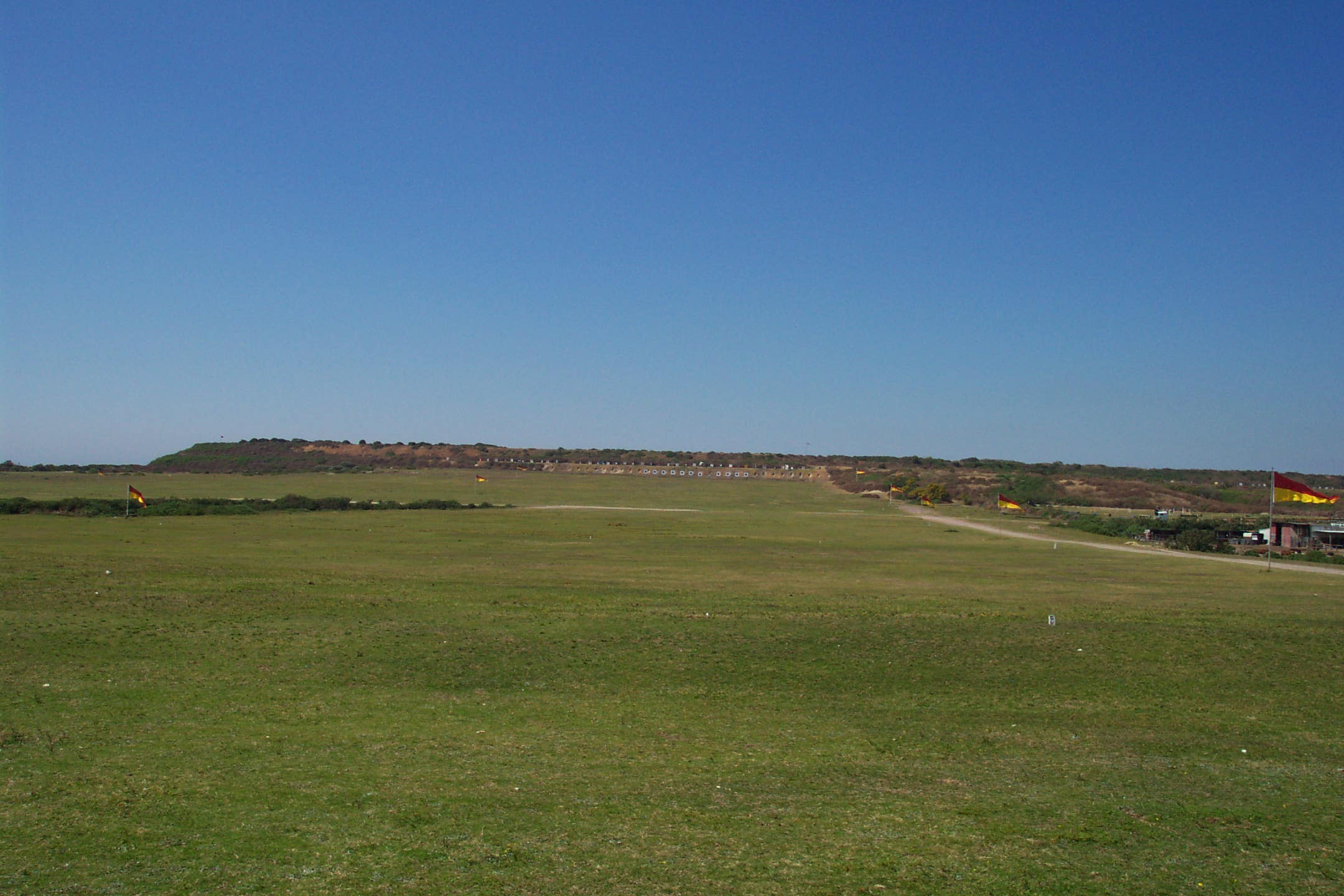 Anzac Rifle Range in Sydney